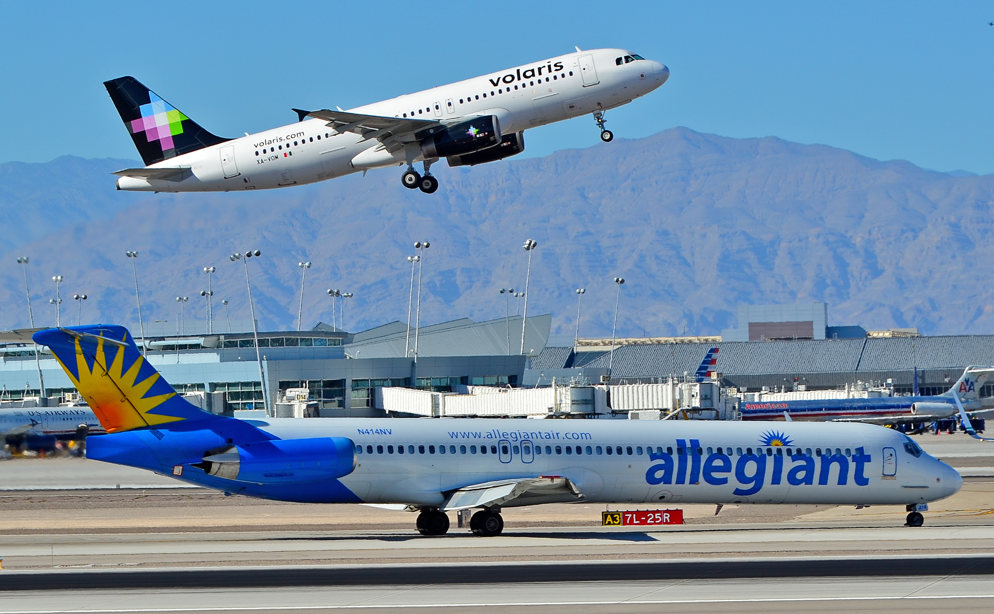 Las Vegas - McCarran International Airport (LAS / KLAS) USA - Nevada September 19, 2014 Photo: Tomás Del Coro